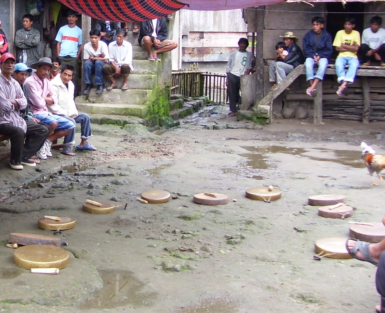 Gungsa waiting to be played, Upper Uma, Kalinga, the Philippines.